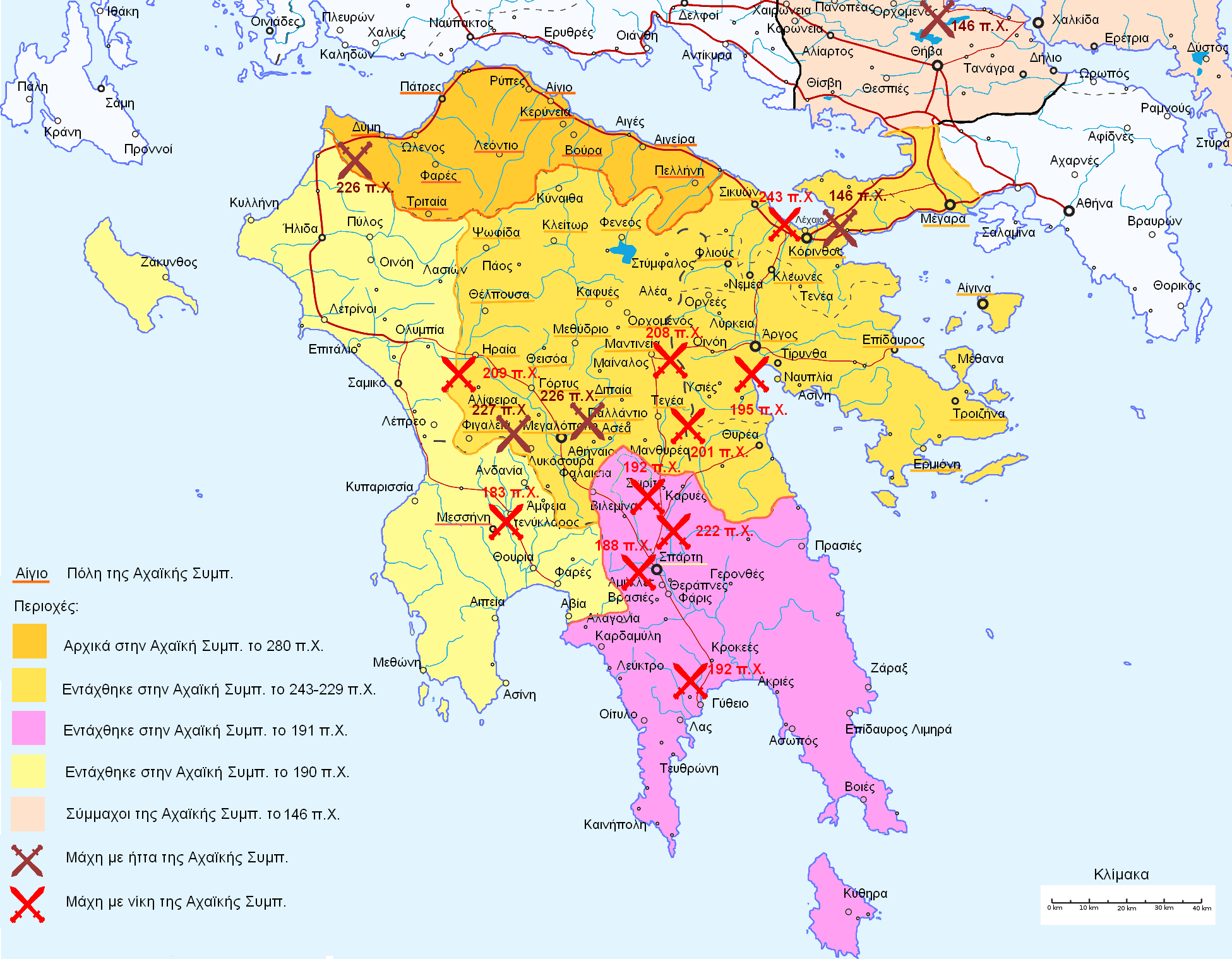 The expansion of the Achean League between 280 BC and 146 BC and main battles against Spartans, Aetolian or Romans.